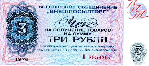 A 'check' of Vneshposyltorg, a kind of parallel currency in the USSR used to pay for goods bought in special 'Beryozka' shops selling mostly Western-made goods. 3 rubles, 1976.